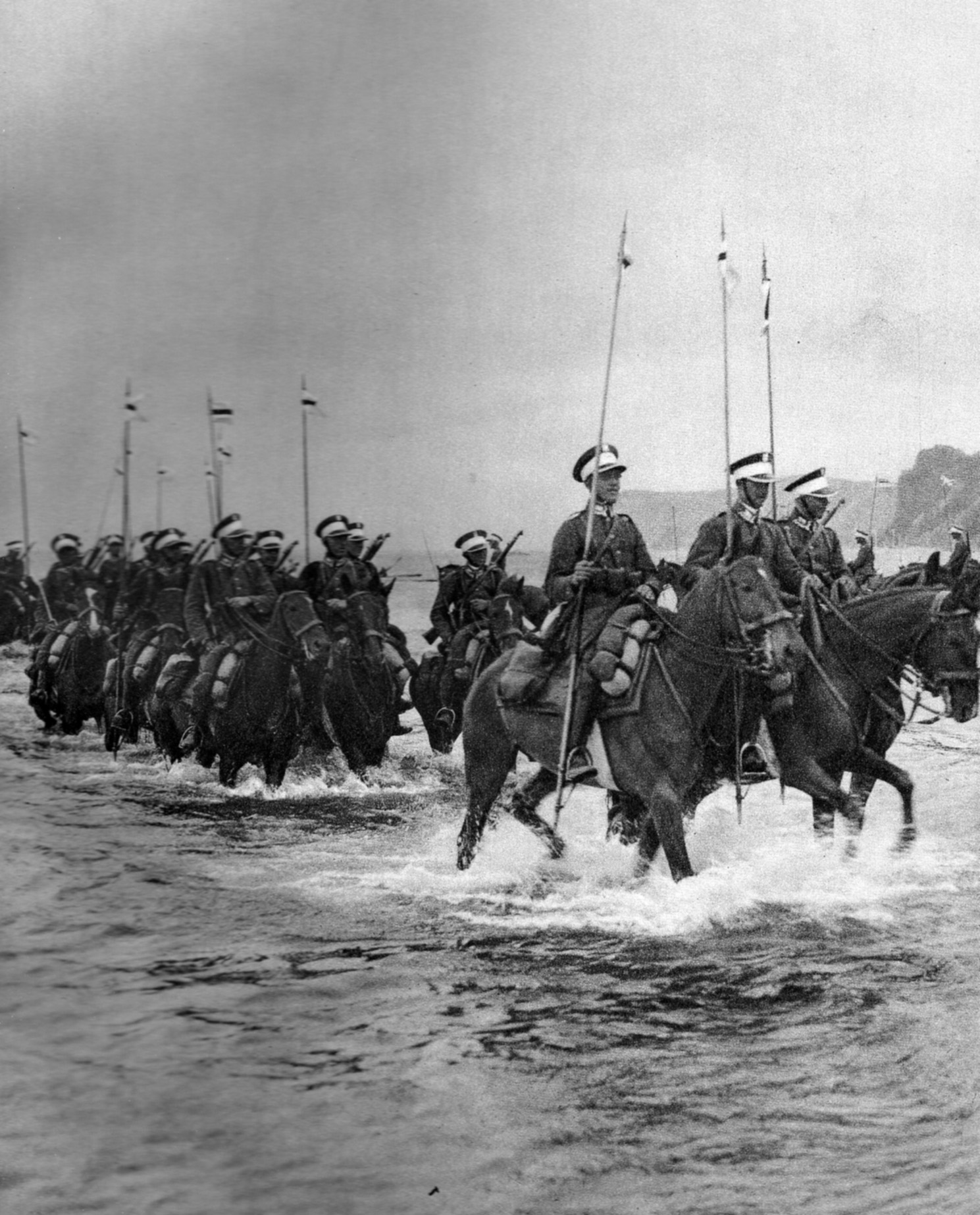 2. Regiment of Chevaulegers by the Sea